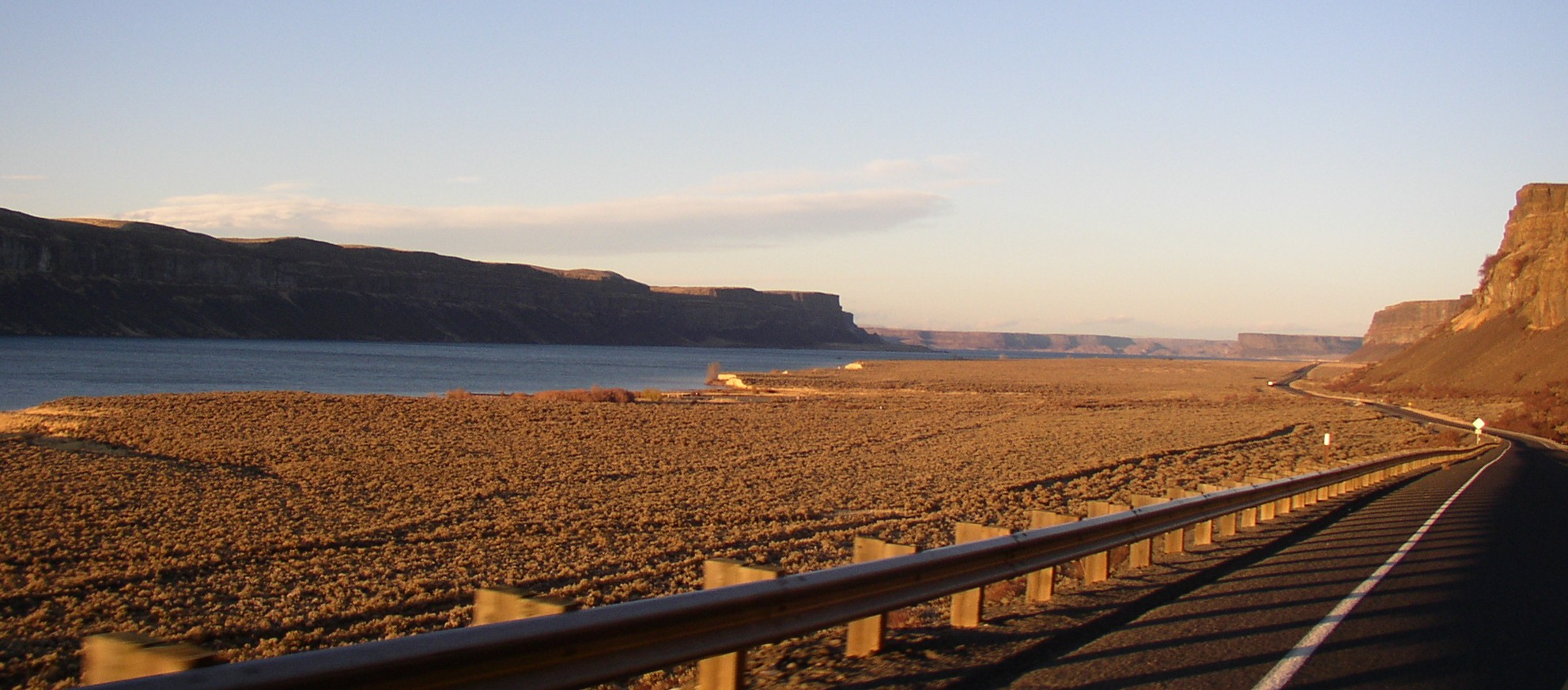 Grand Coulee on a November evening in 2006. Photo taken by uploader. All rights released. Williamborg 07:20, 12 November 2006 (UTC)